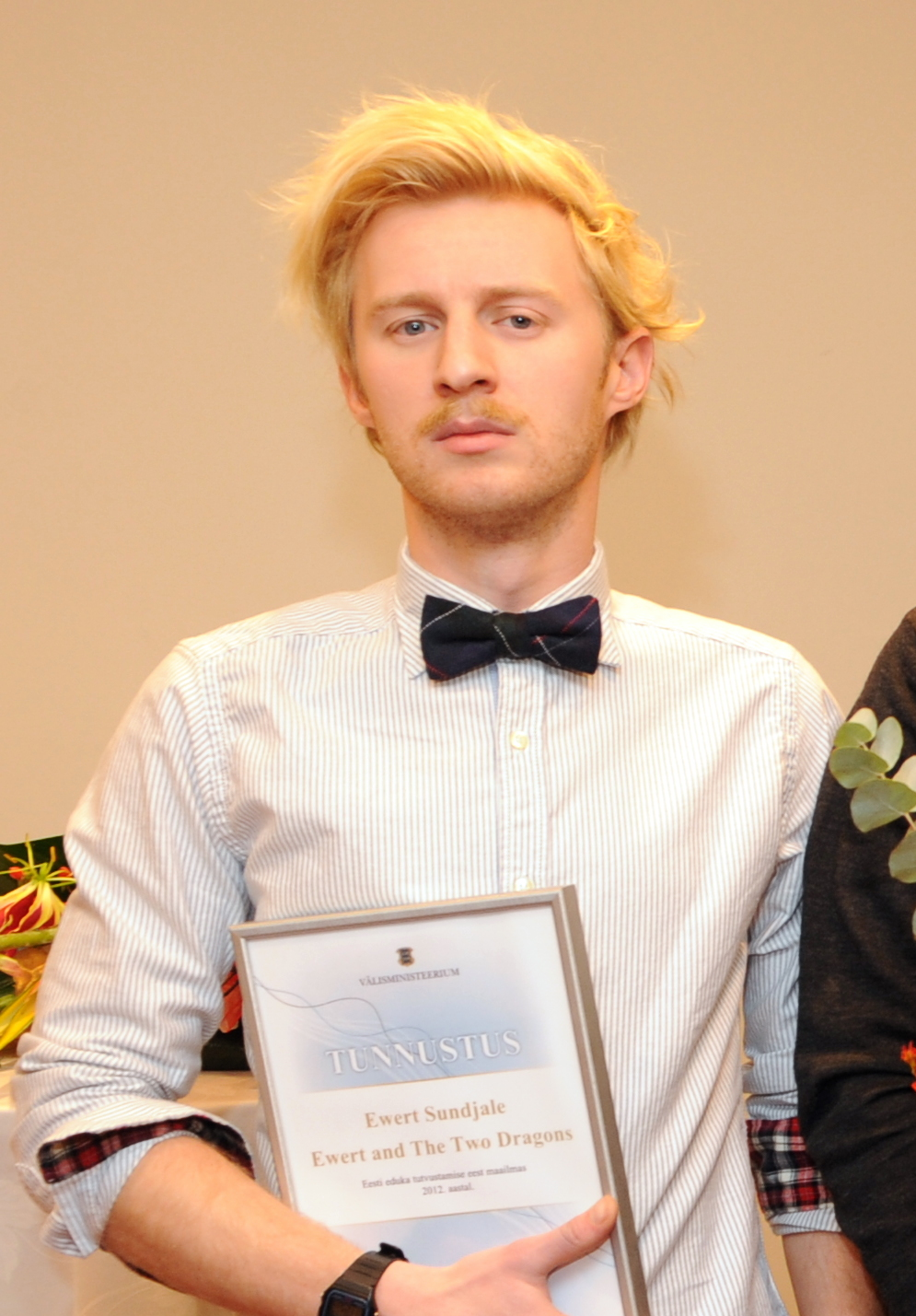 Estonian vocalist Ewert Sundja at the presentation of foreign ministry cultural stipends